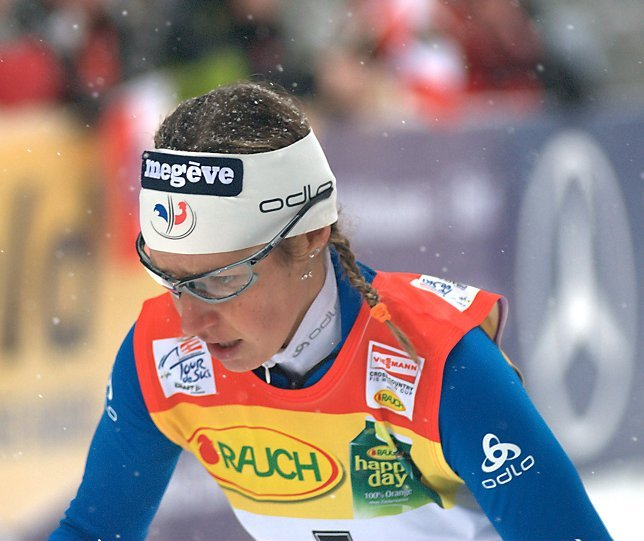 Cécile Storti at the Tour de Ski 2010 in Oberhof